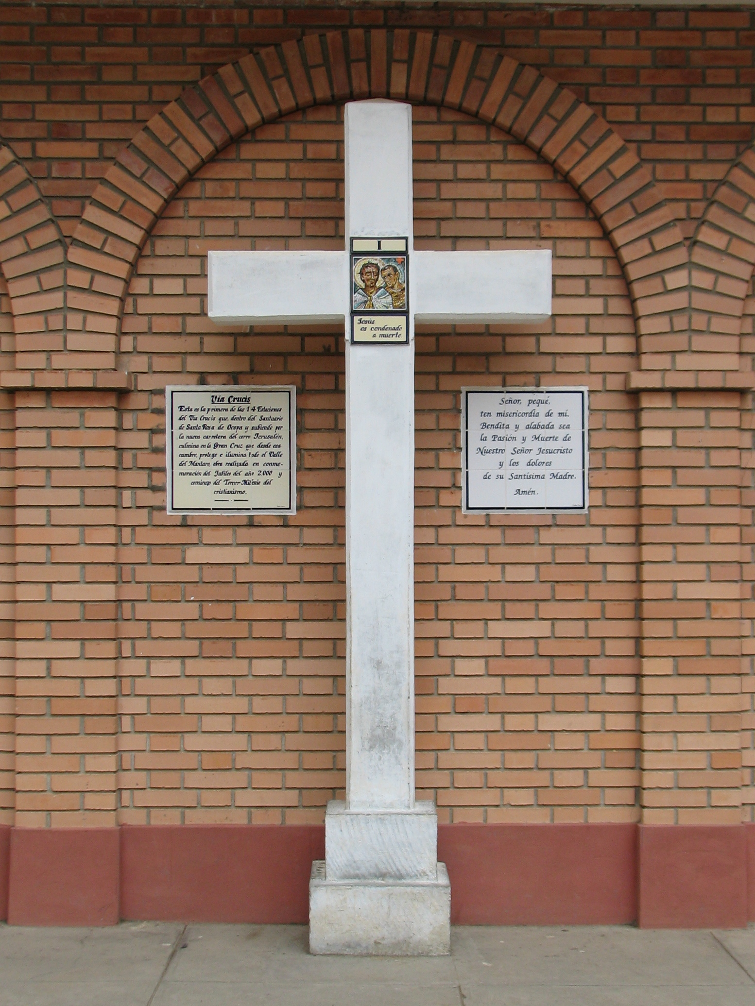 Cross in Santa Rosa de Ocopa/Concepción/Junín, Peru.